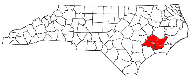 Locator map of the New Bern Micropolitan Statistical Area in the southeastern part of the U.S. state of North Carolina.